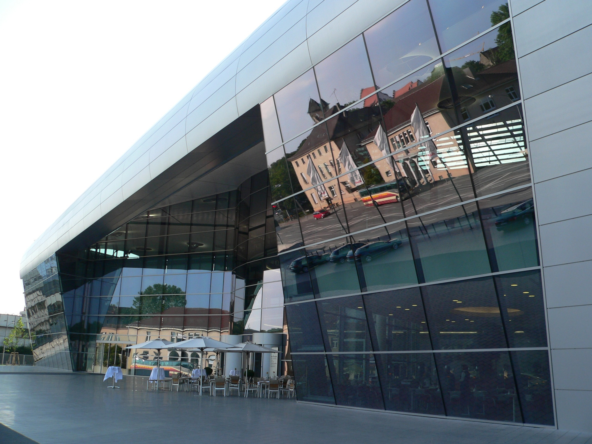 Audi-Forum of the Audi AG in the City Neckarsulm/Germany